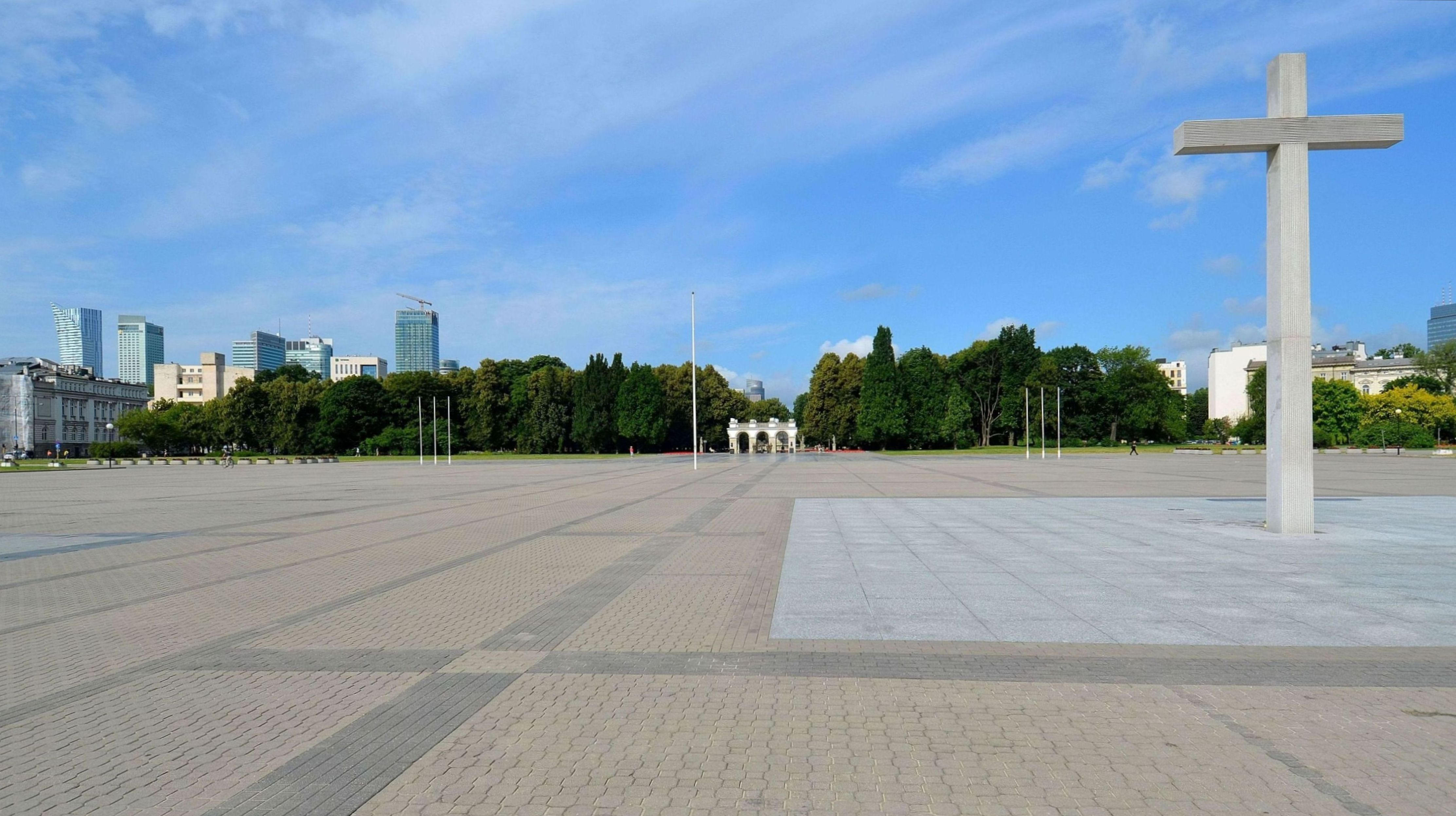 Marshal Józef Piłsudski Square in Warsaw